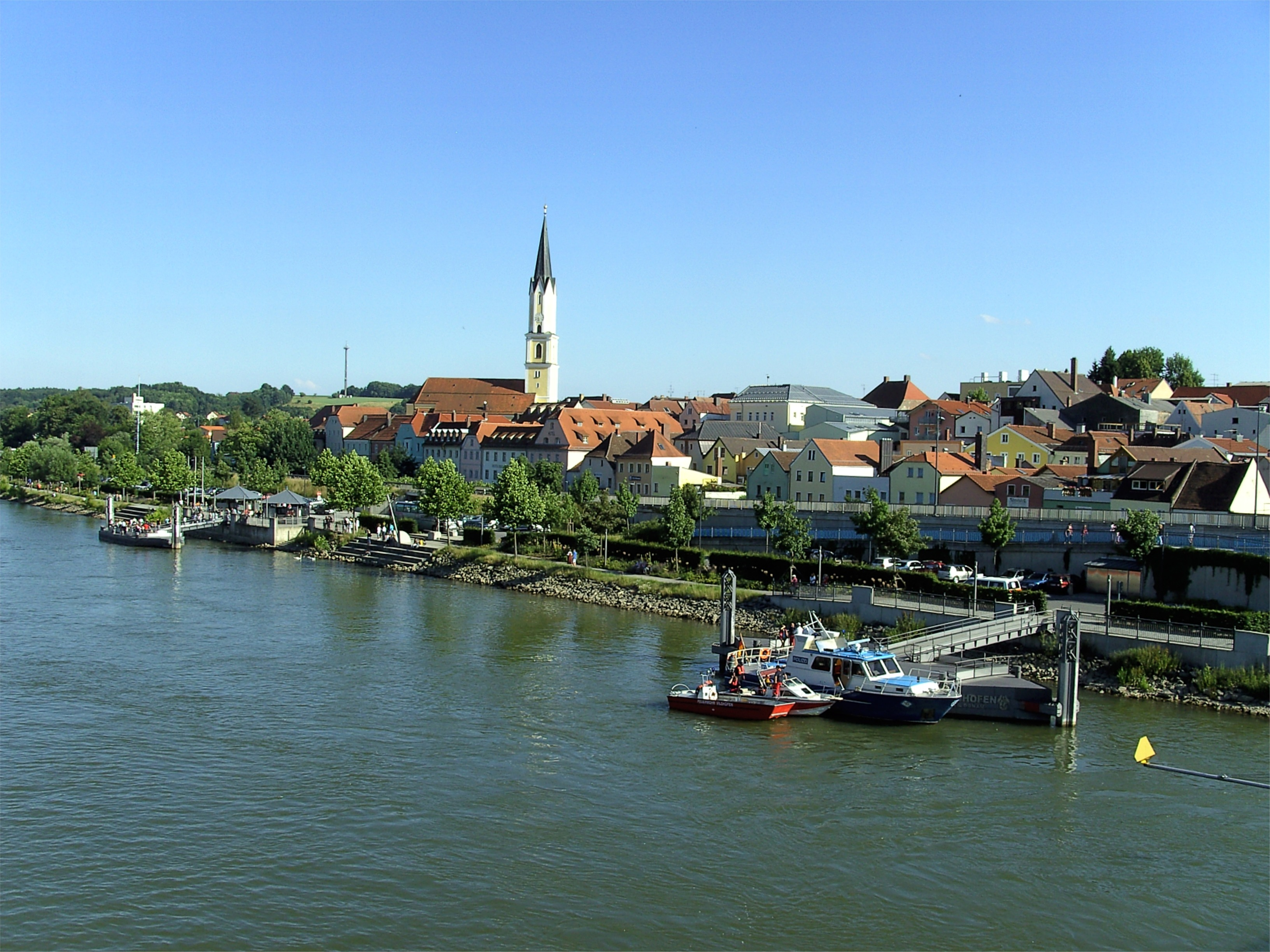 Vilshofen an der Donau.